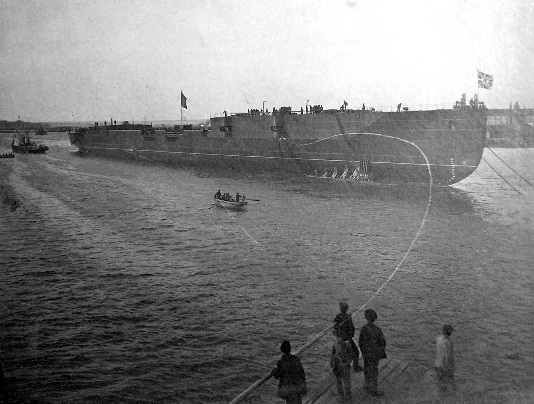 Imperial Russian cruiser Admiral Nakhimov, 25 October 1915.